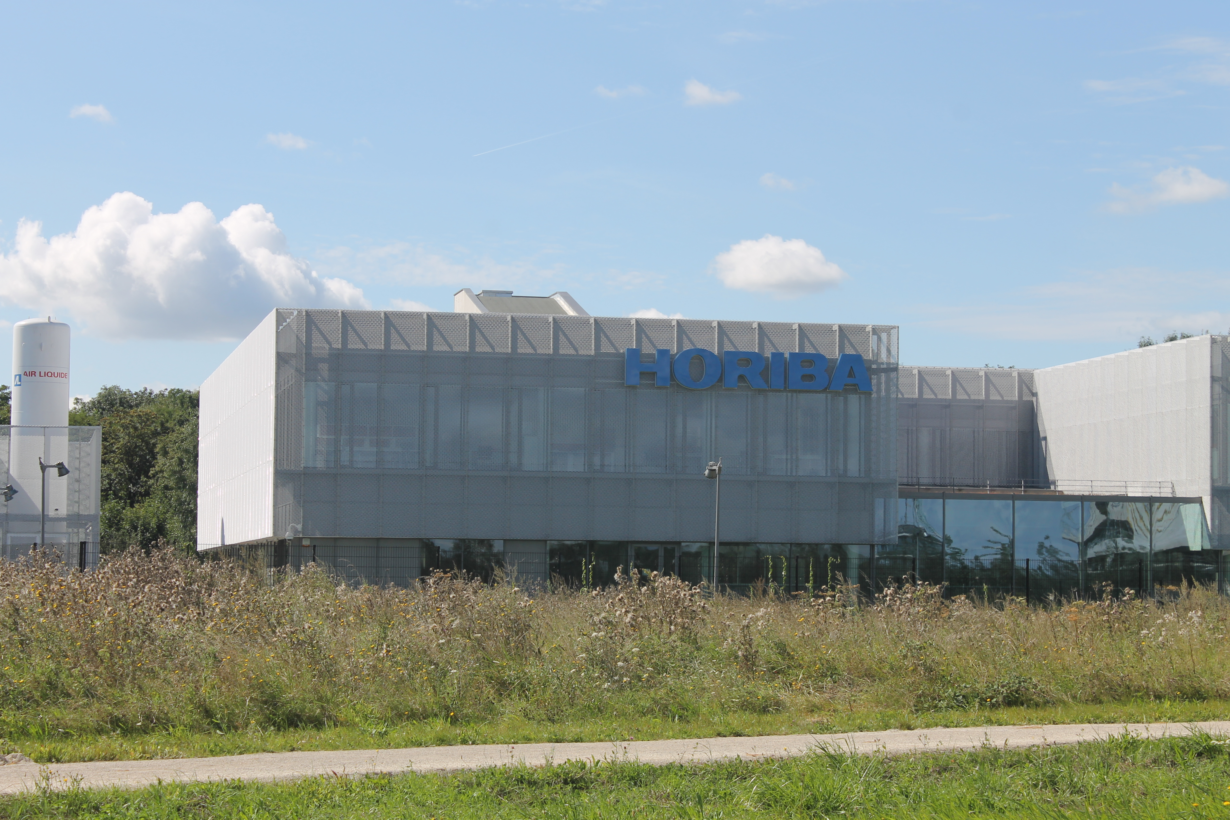 The European headquarters and the research facilities of the Japanese society Horiba, in the business cluster of Paris-Saclay, France.